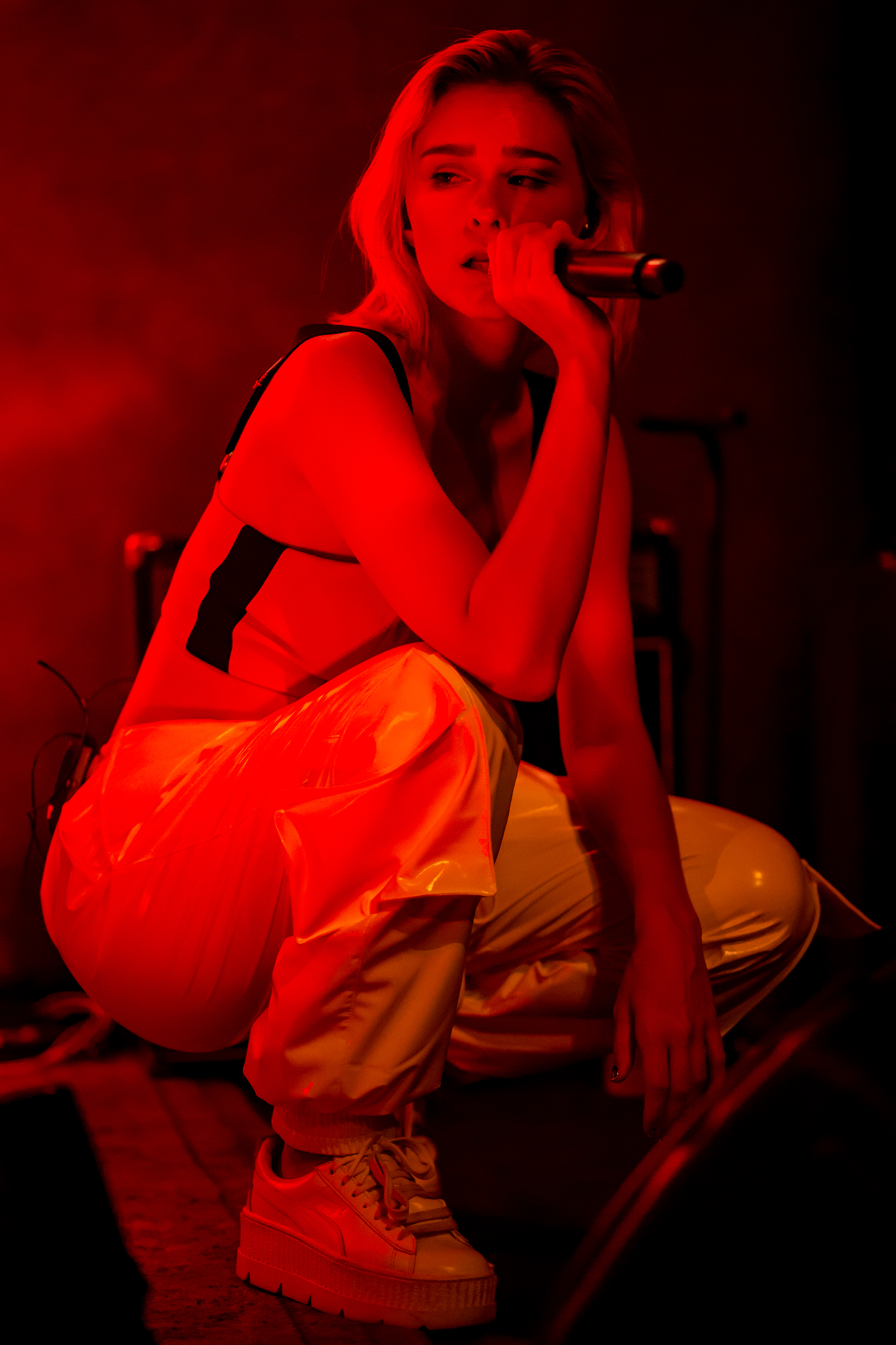 Nicole Millar performing live at School Night at Bardot Hollywood in Los Angeles, California, on Monday, May 7, 2018.